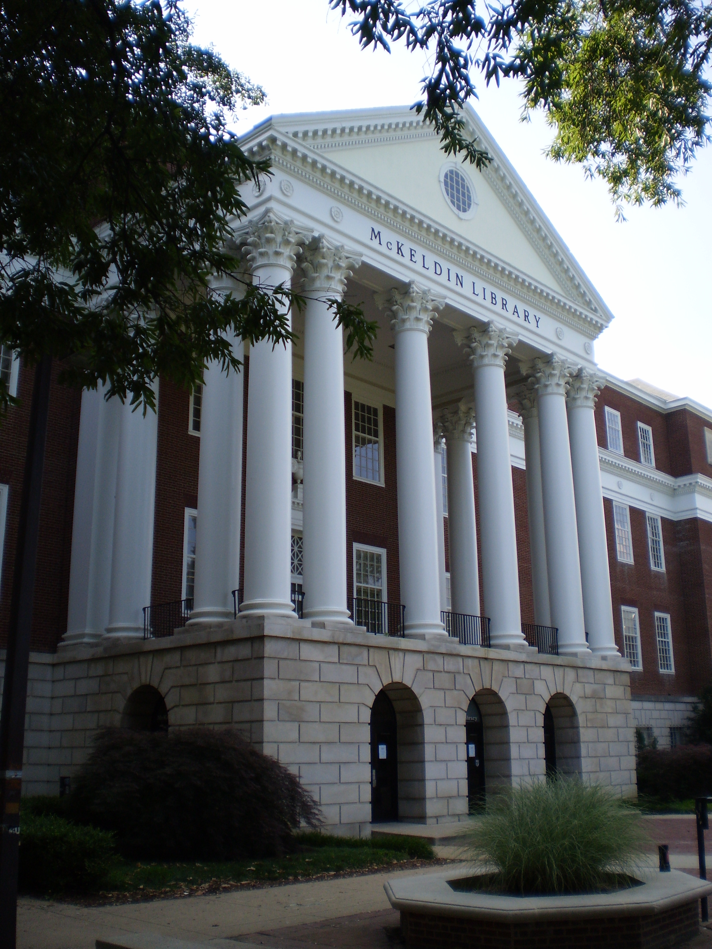 View of McKeldin Library on the campus of the University of Maryland, College Park.